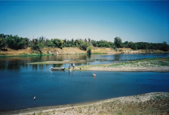 The San Joaquin River — in the San Joaquin Valley, California.